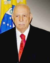 José Alencar Gomes da Silva, Vice-President of Brazil.